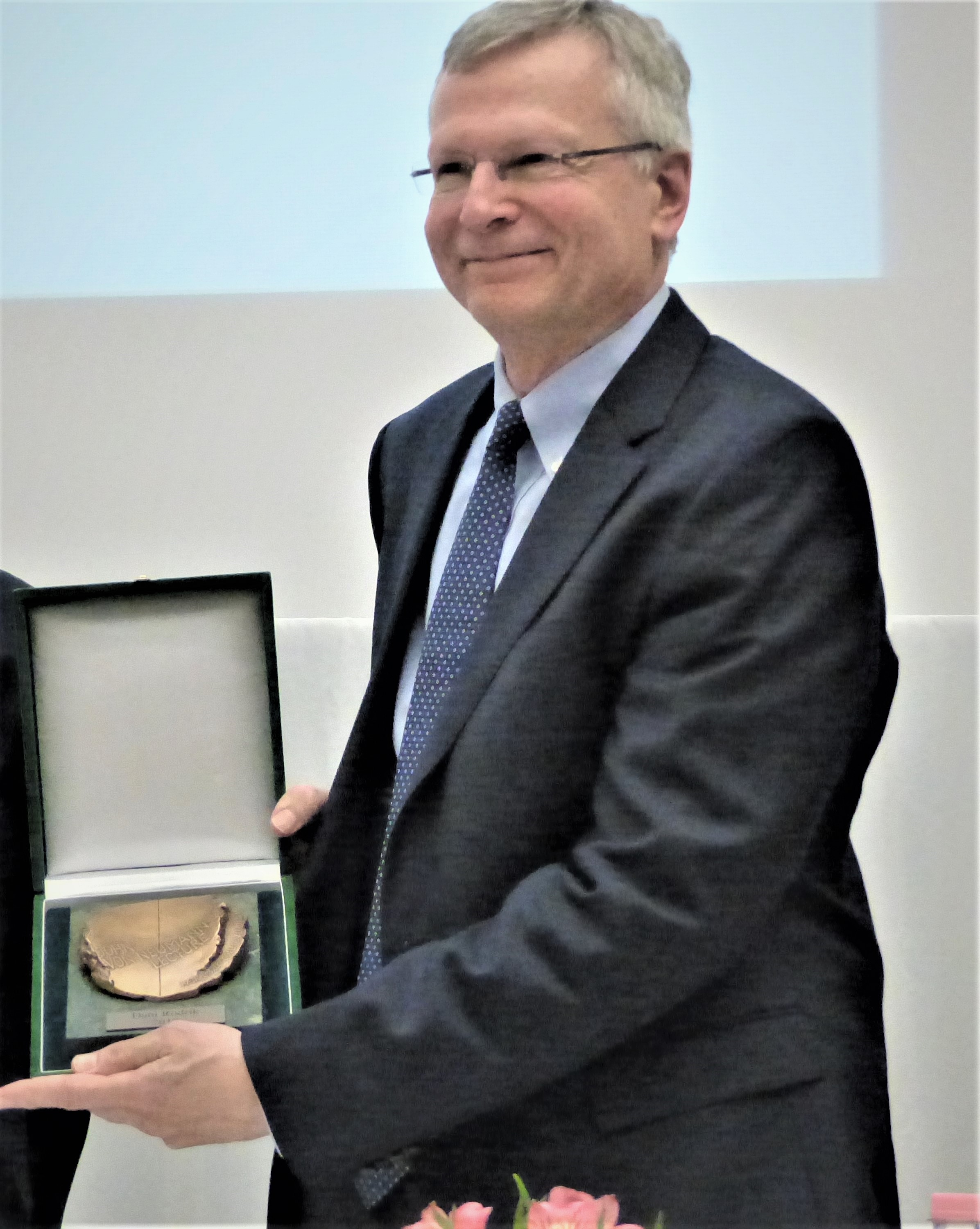 Dani Rodrik John von Neumann Award Ceremony and Lecture 2018. Taken on Wednesday, the 16th of May, 2018. ELTE Faculty of Humanities. 4/a Muzeum krt. « Gólyavár ». 1088 Budapest, Hungary.